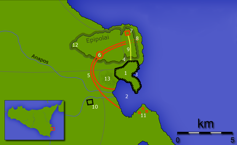 map of the Siege of Syracuse.